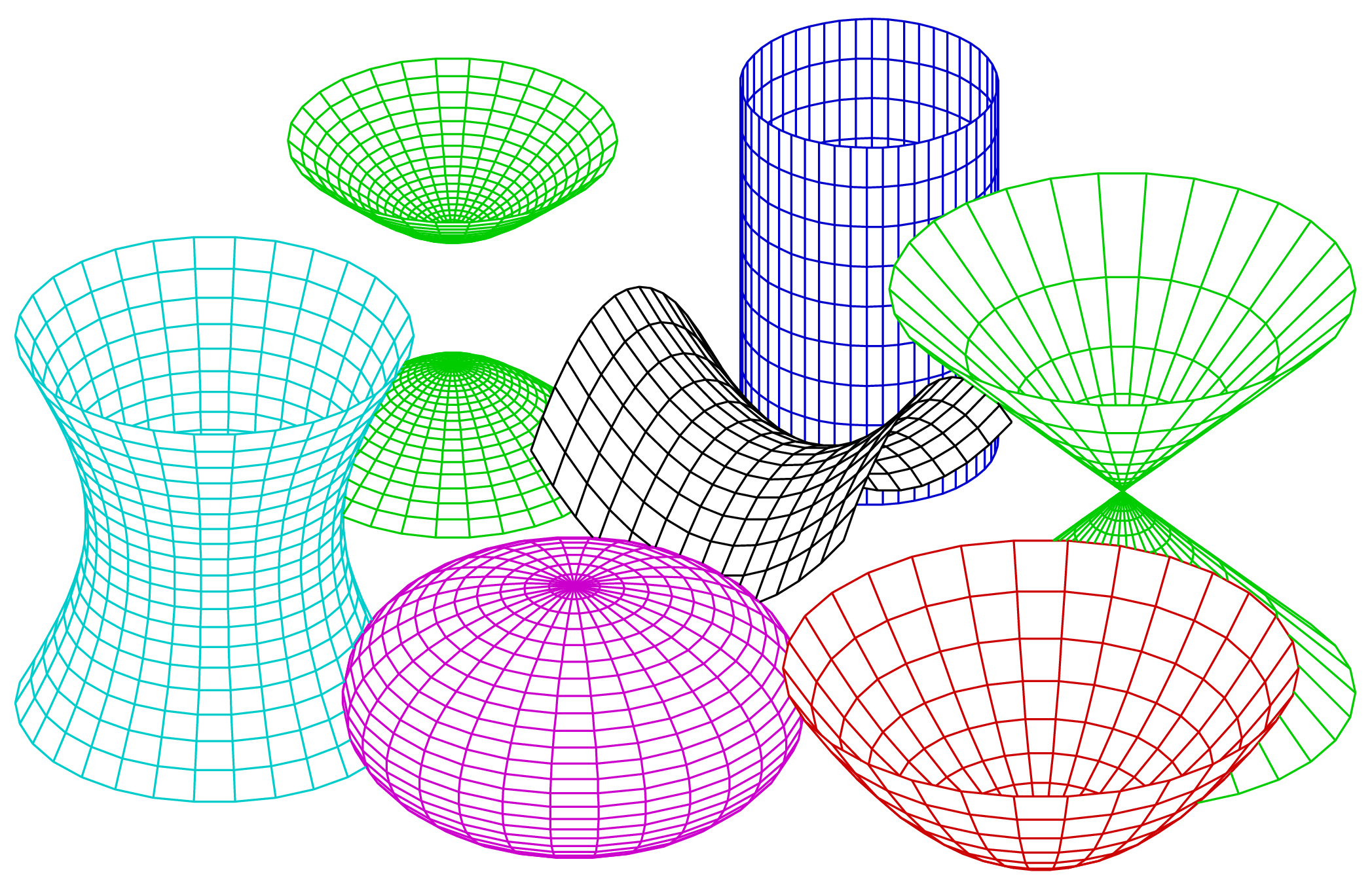 quadrics: ellipsoid,hyperboloid of one/two sheet,cone,cylinder,elliptical and hyperbolic paraboloid